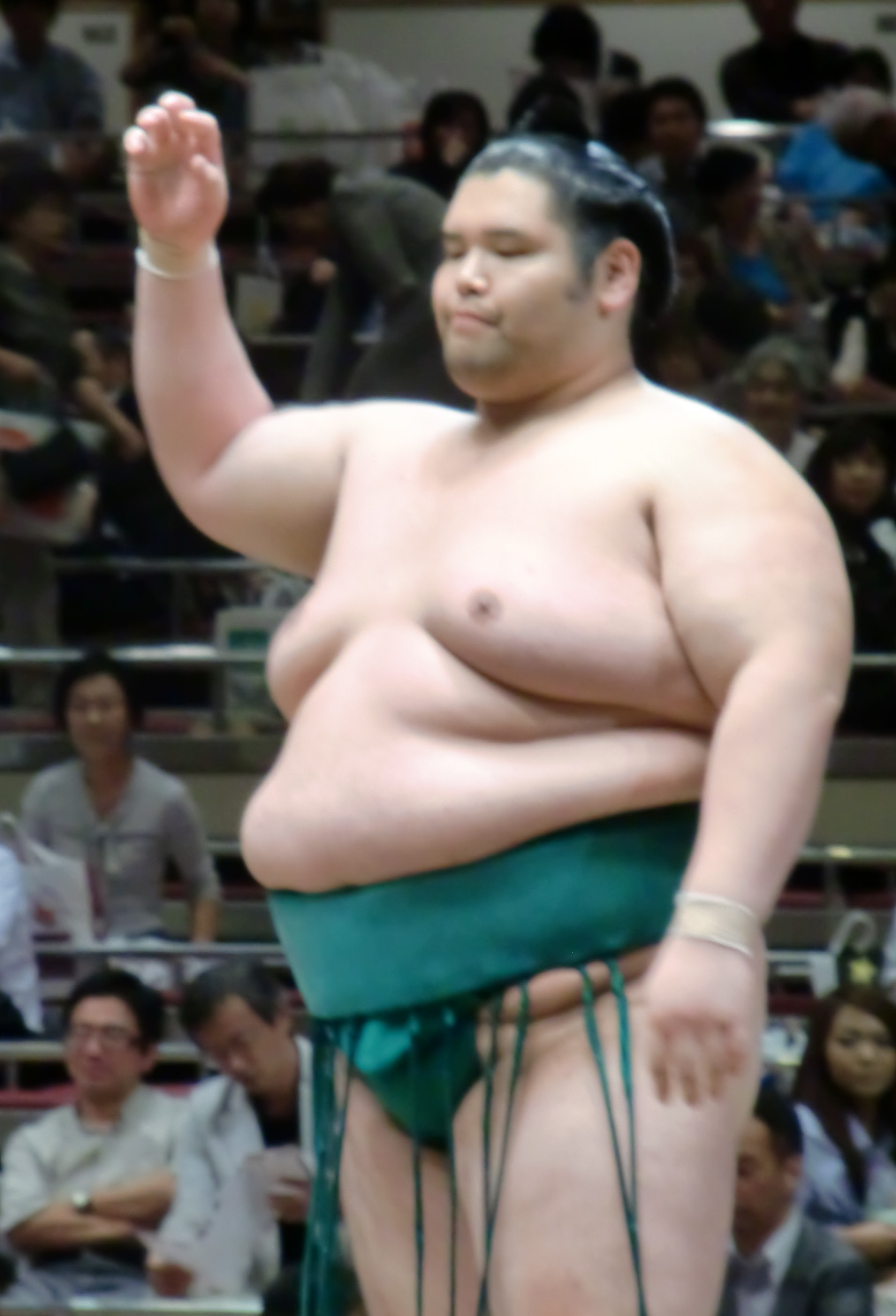 taken at May 2010 tournament